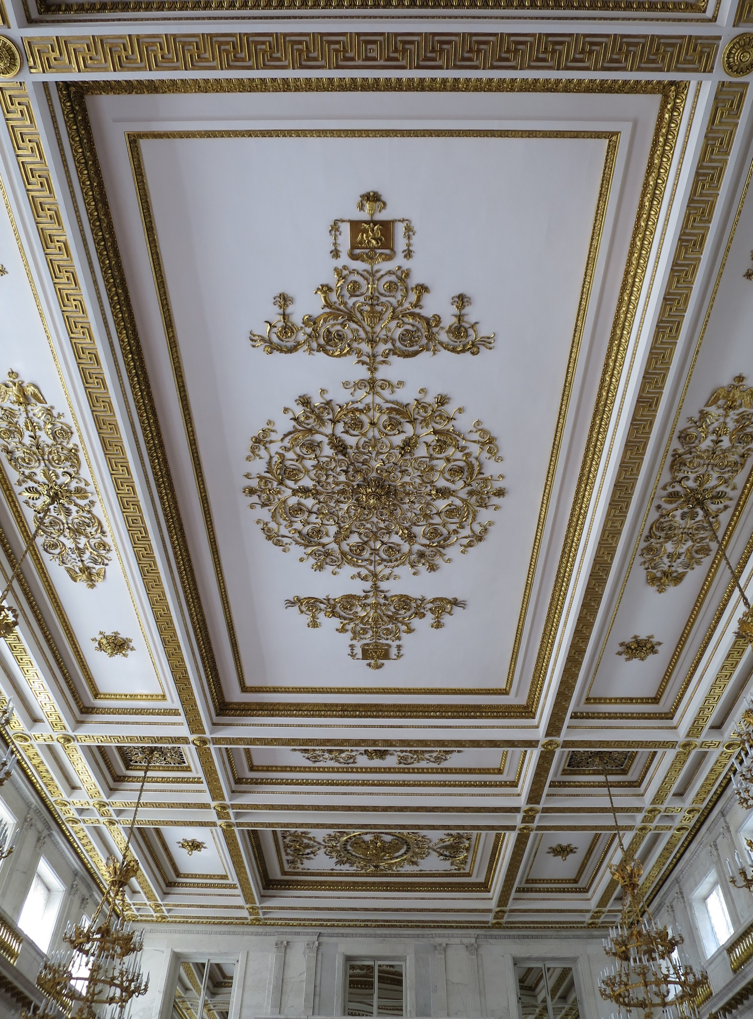 Ceiling in the Hermitage, 2014